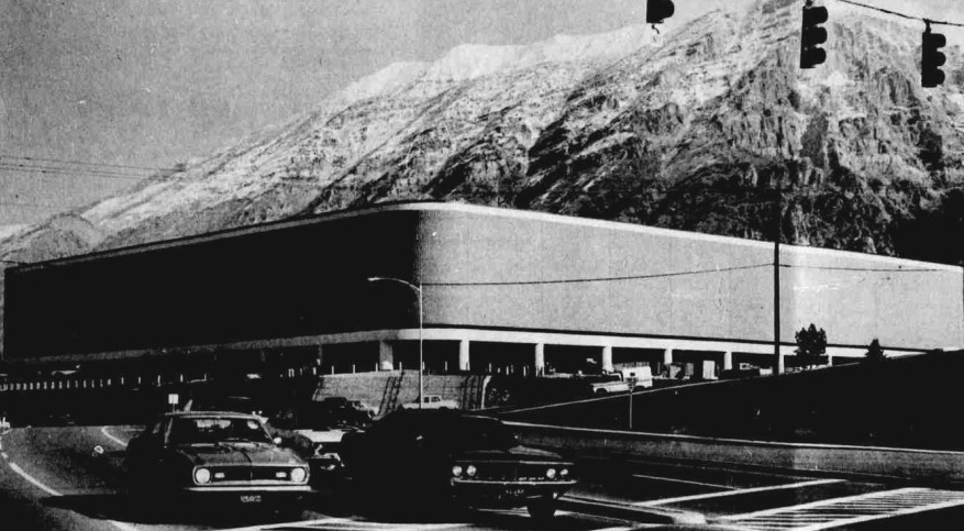 The Marriott Center on the campus of Brigham Young University in Provo, Utah following its construction in 1971.